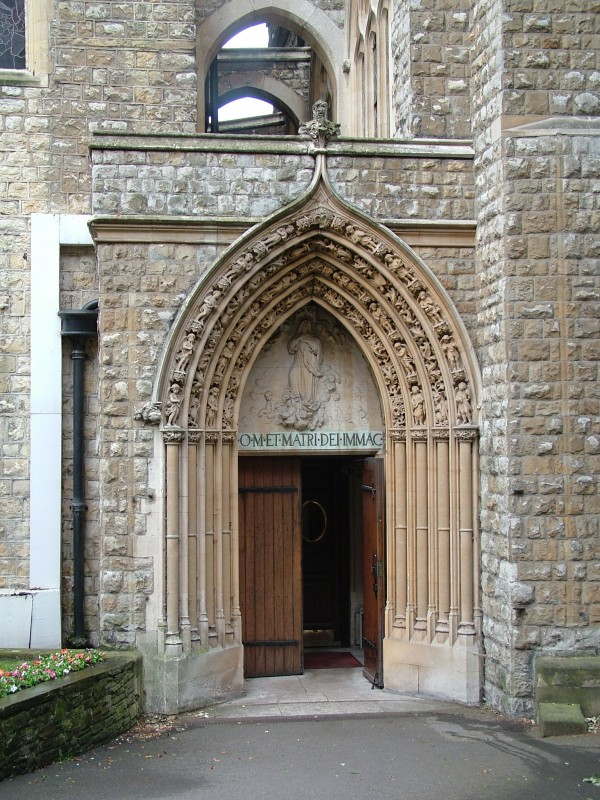 Mount Street Gardens chapel entrance. Date: 22nd June 2004 17:05 9 ISO: 200 Photograph: ed g2s • talk